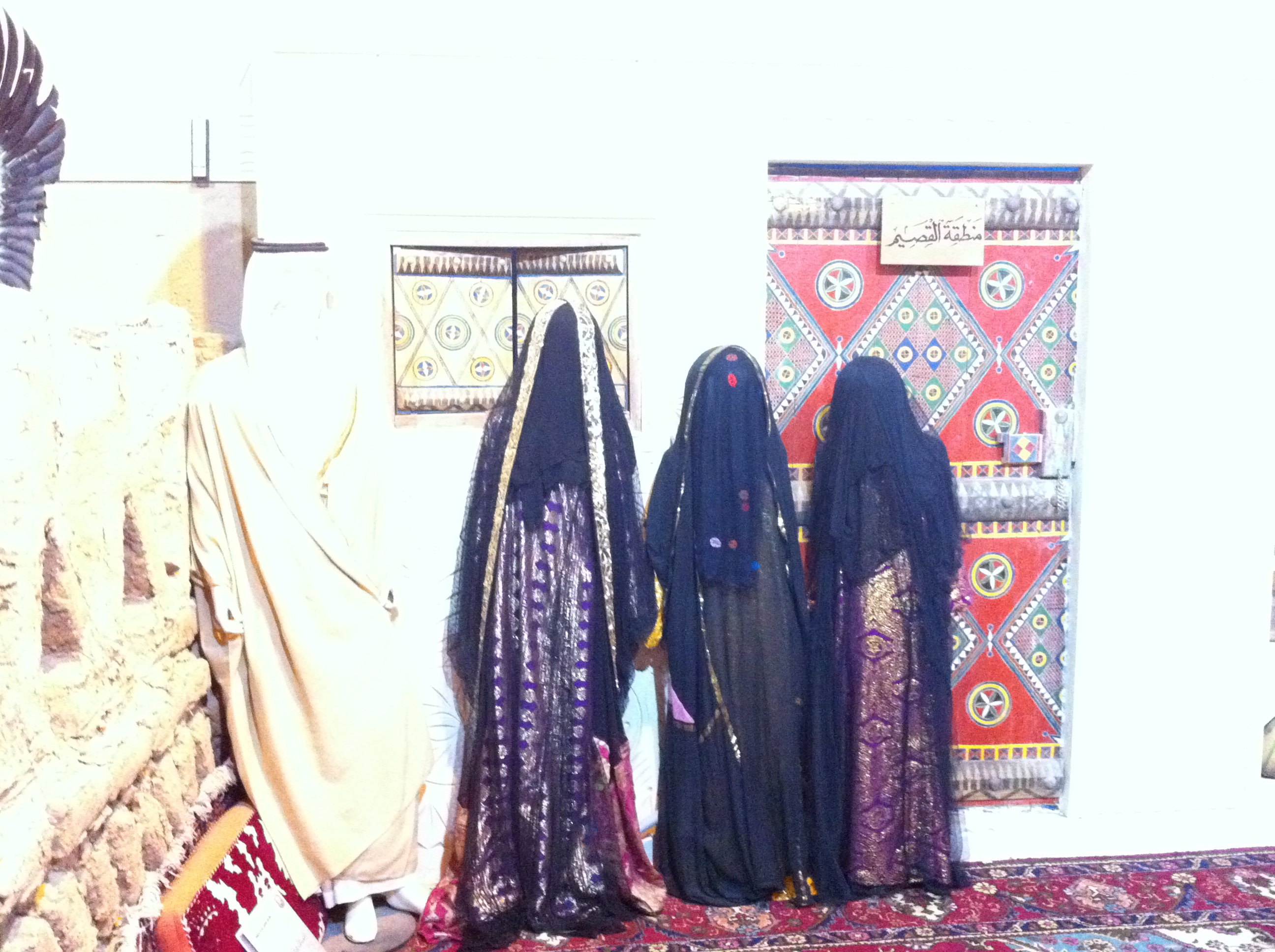 people's traditional clothing in Najd province